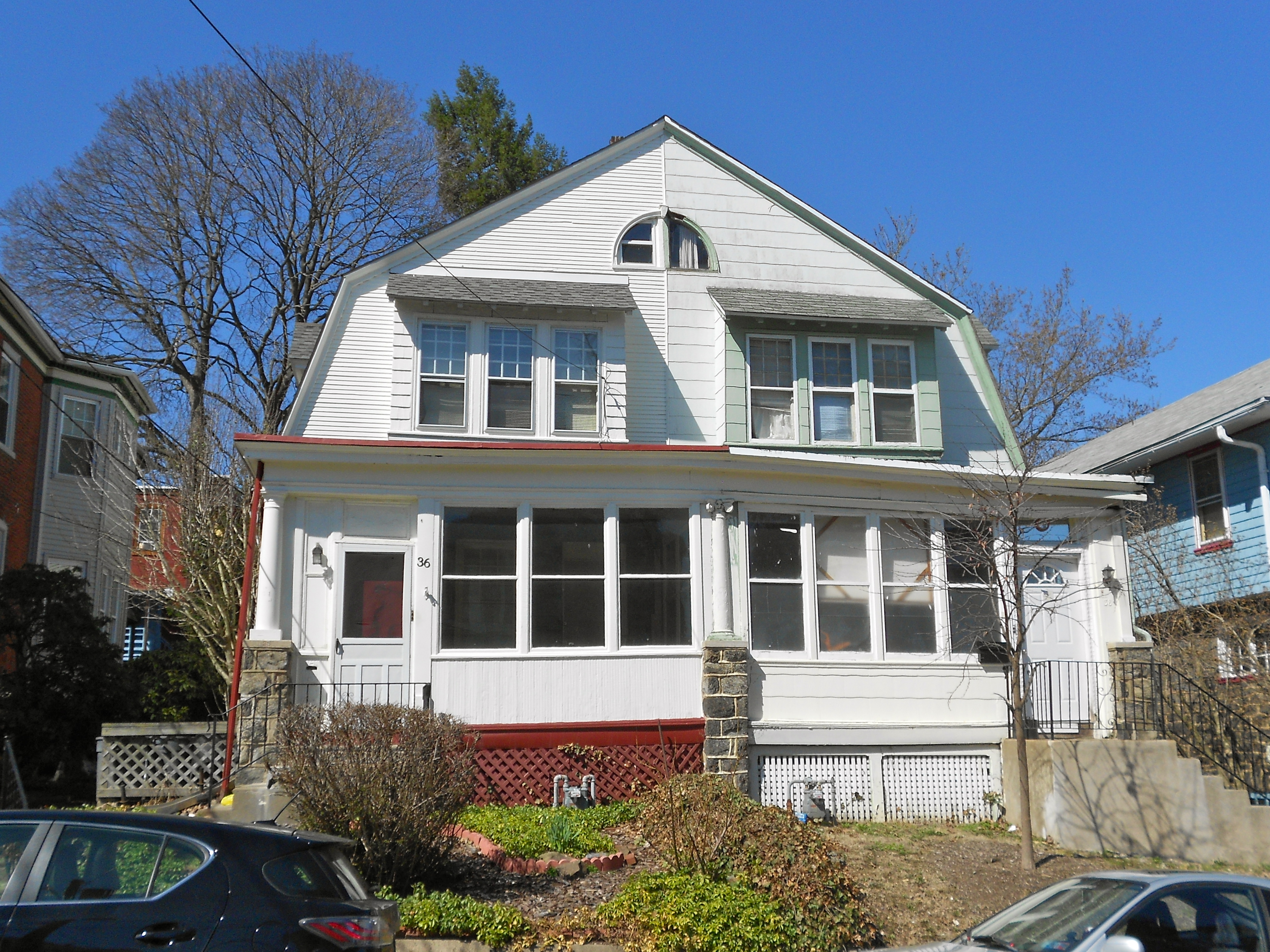 House in Millbourne, Pennsylvania